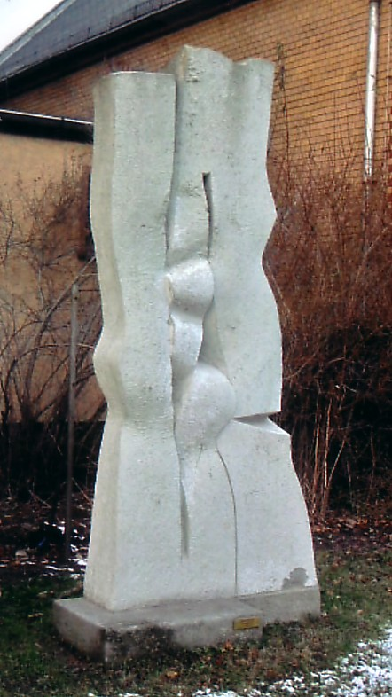 sculpture Zabelstein by Ullrich Holland; Gera, Germany, 2000